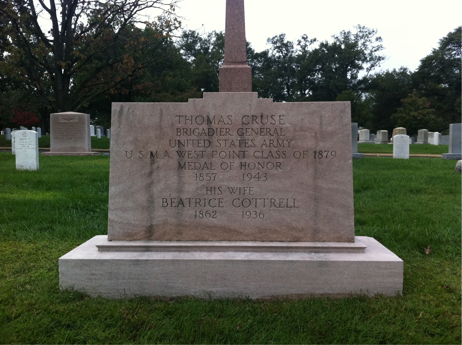 Grave marker of Thomas Cruse at Arlington National Cemetery, Section 3